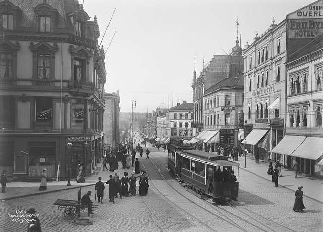 Tram at Egertorget / Carl Johans Gate in Oslo, Norway in 1907